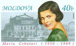 Maria Cebotari on a stamp of Moldova